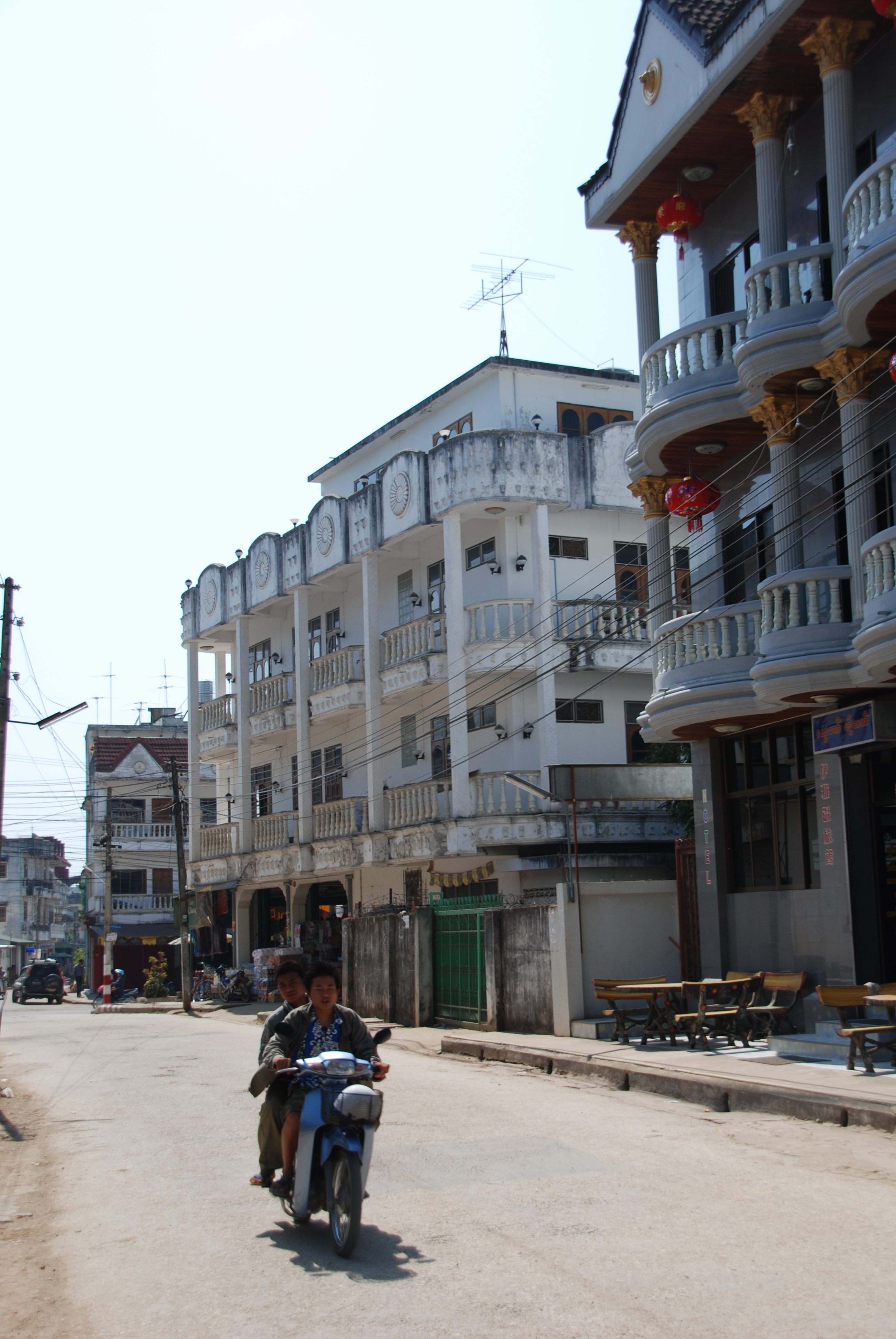 Street life and architecture in Tachilek, Myanmar မြန်မာဘာသာ: လမ်းအသွားအလာ၊ တာချီလိတ်မြို့၊ မြန်မာနိုင်ငံ